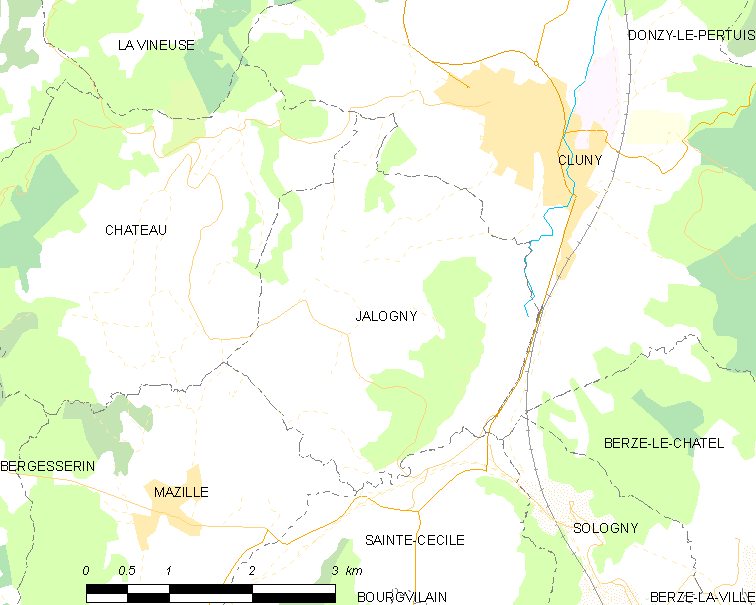 Map of French municipality